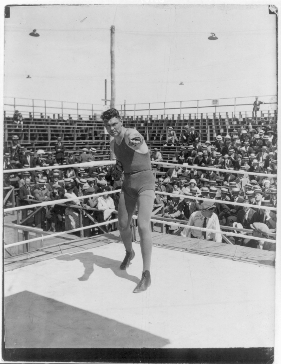 Title: Jack Dempsey at his training camp, June 1921: shadow-boxing in ring; spectators in background Abstract/medium: 1 photographic print.